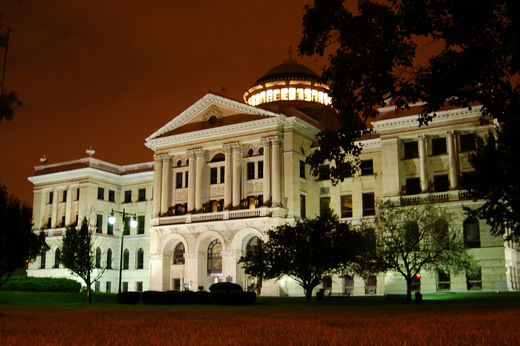 Common Pleas Court in Lucas County, Ohio (Toledo) in the USA. Crazy colors happening here. I didn't edit a bit either.